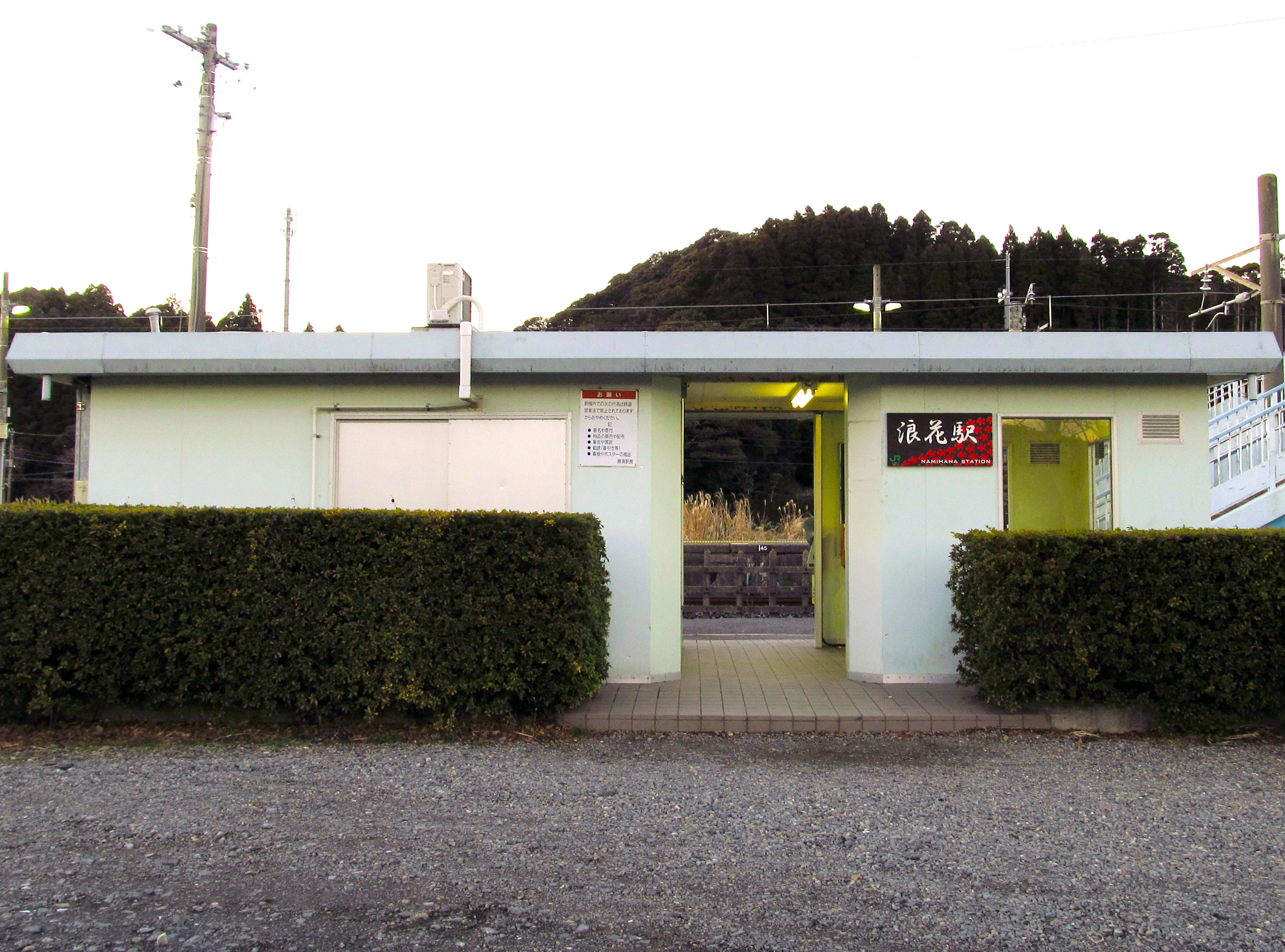 The building of Namihana Station on the Sotobō Line in Isumi city, Chiba prefecture, Japan